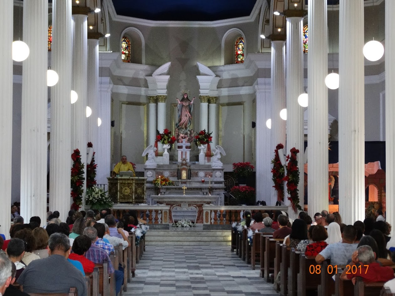 Iglesia La Merced, altar